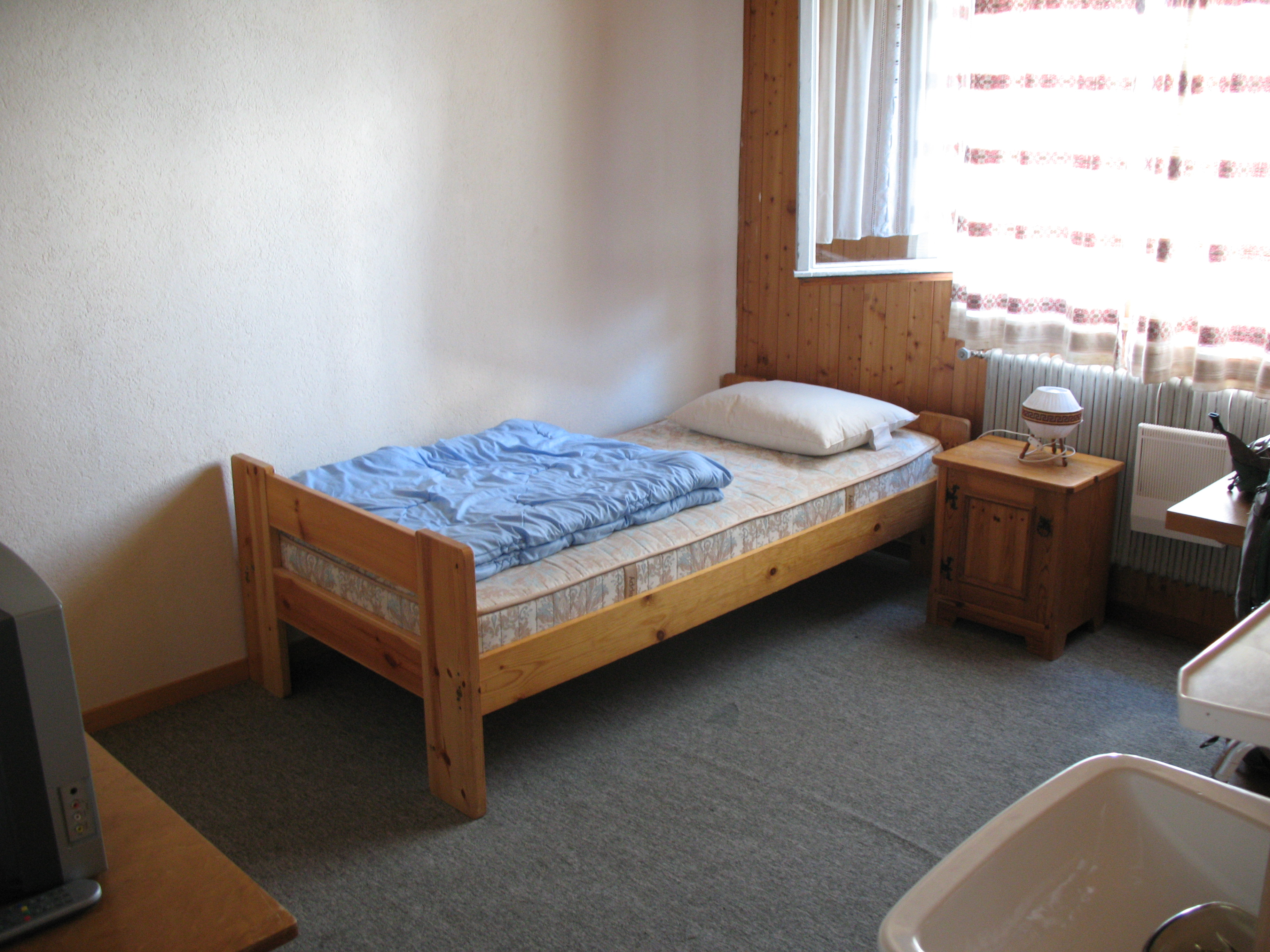 Hotel Eggishorn, Fiescheralp, Switzerland